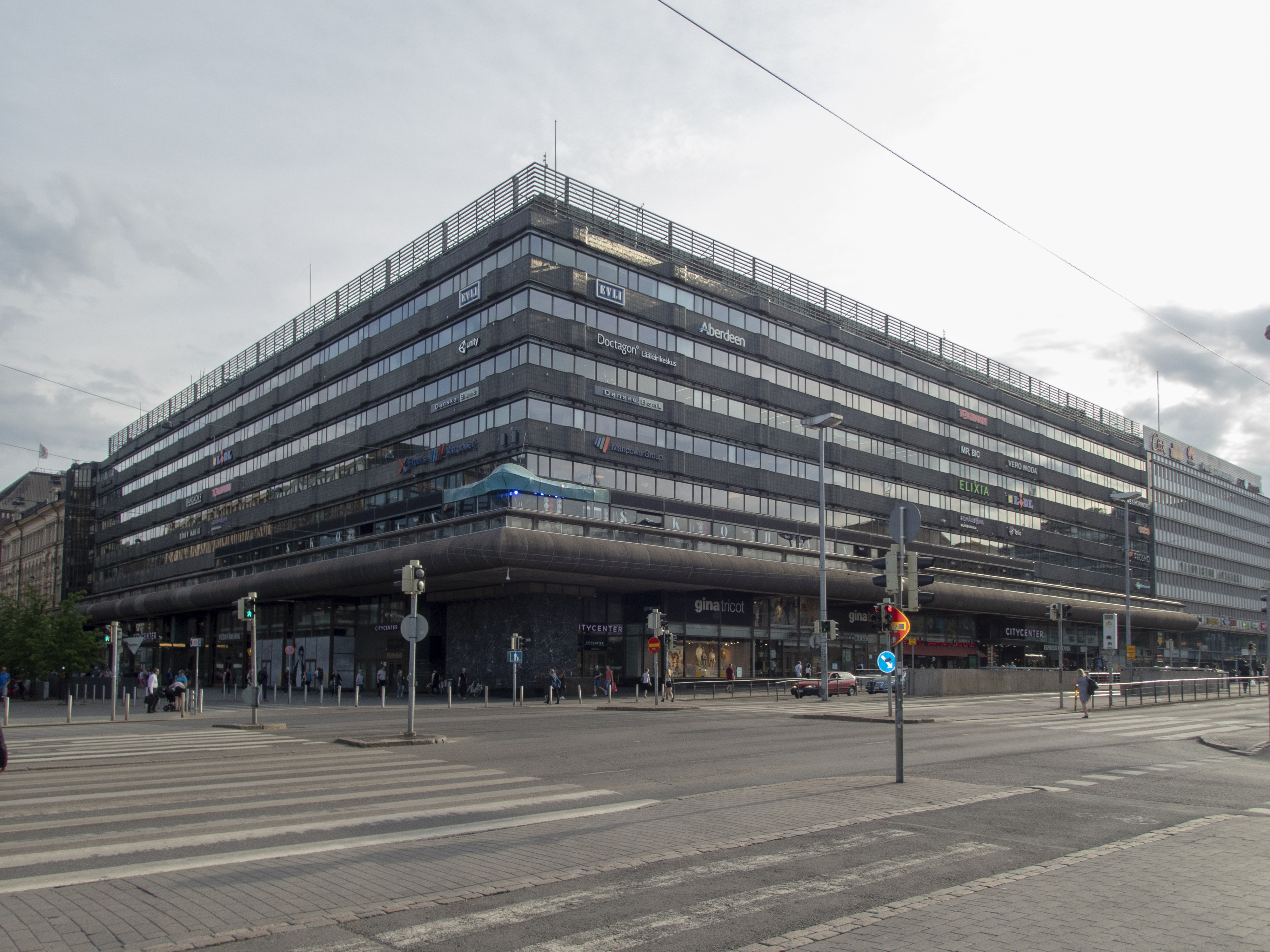 Makkaratalo, Keskuskatu 6 - Kaivokatu 6-8, Helsinki. Built in 1964 Architects Revell & Castrén